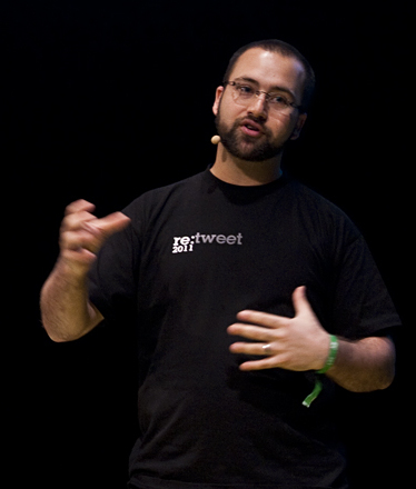 Cyrus Farivar auf der re:publica 2011 (cc) Jonas Fischer/re:publica